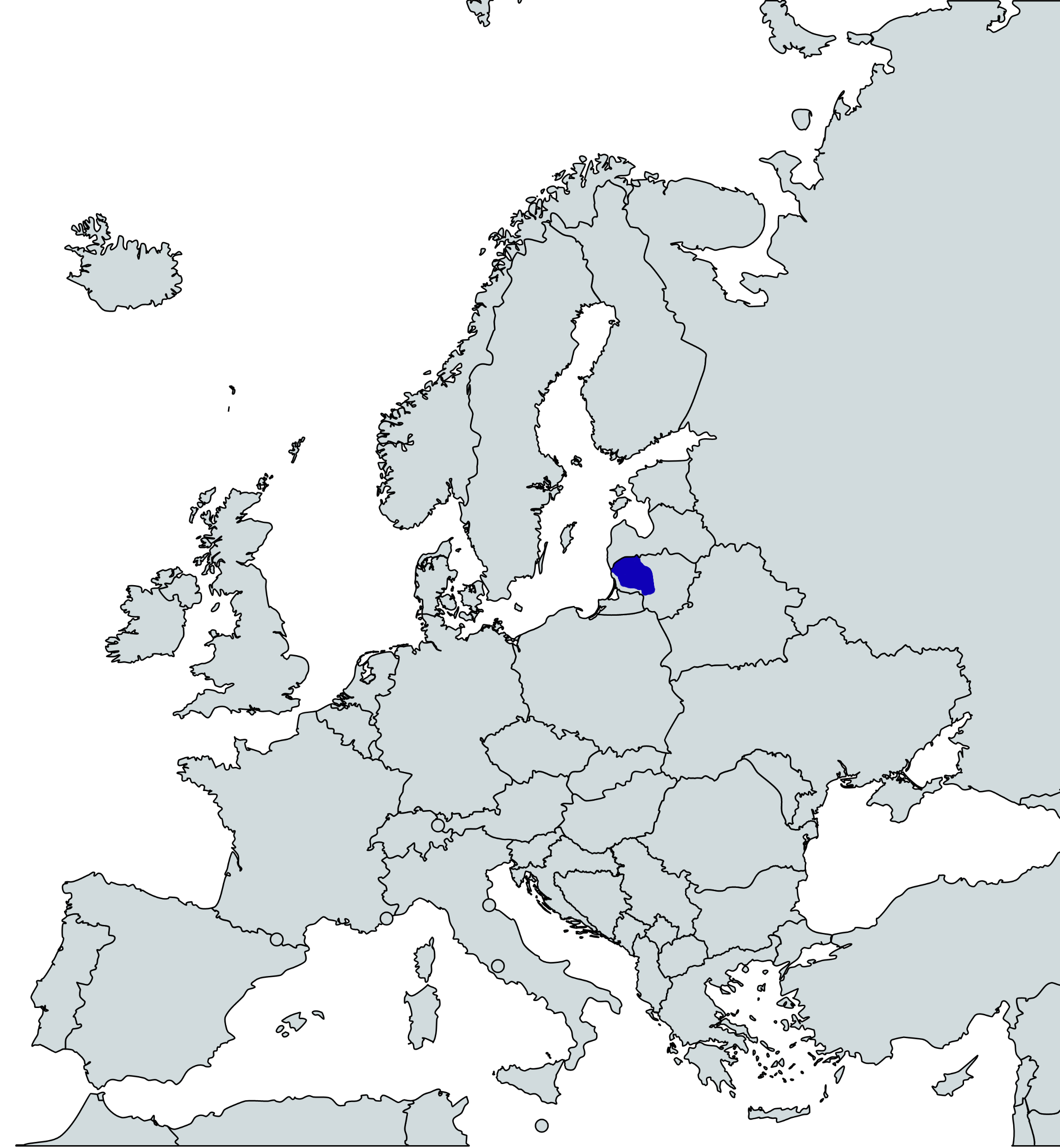 Map shows where is Samogitia.